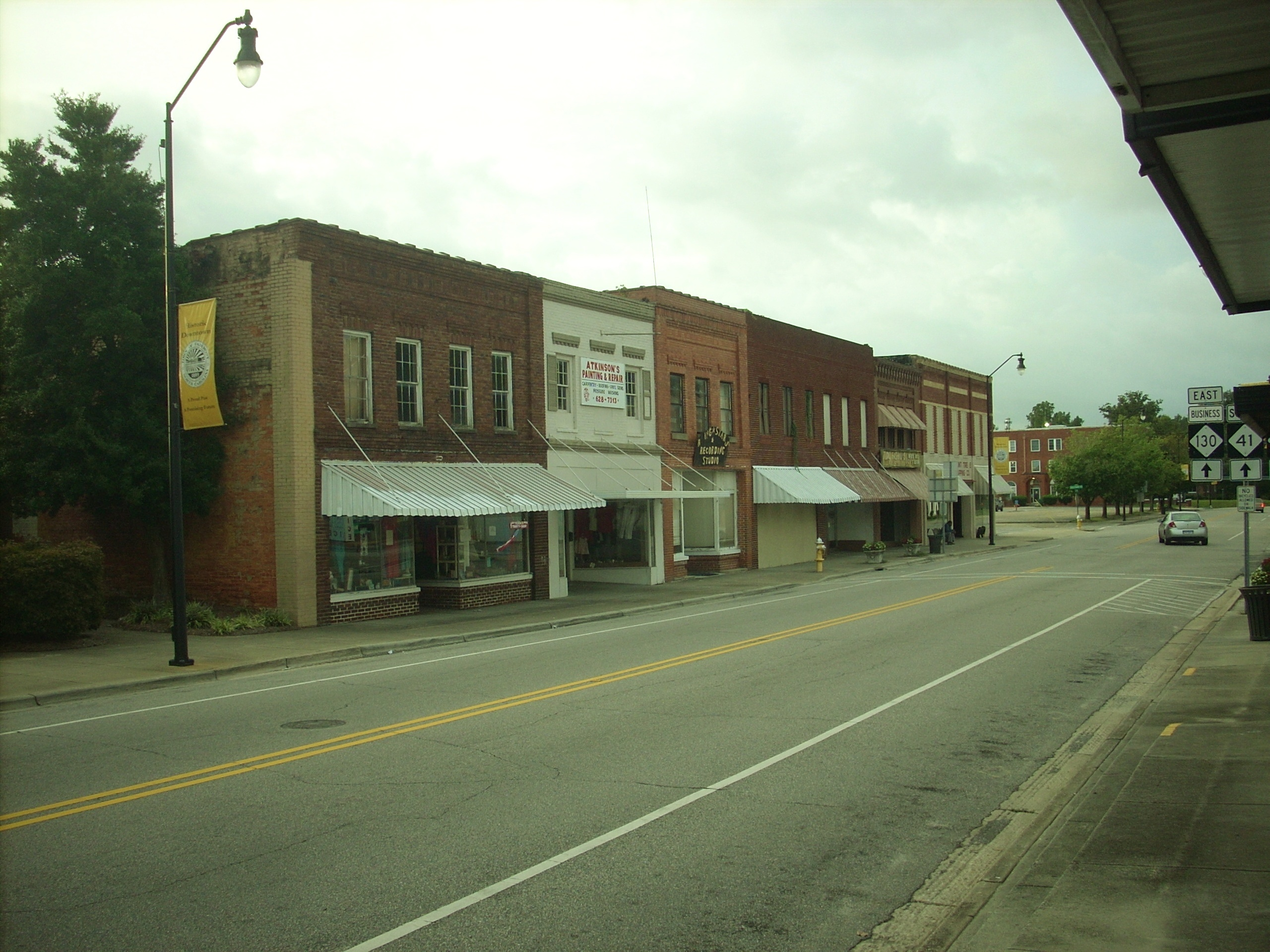 A view looking south down Main Street in Fairmont. Fairmont used to be a pretty wild town back in the old days. It sure isn't now. Fairmont in Robeson County used to be a major tobacco center for farmers in North and South Carolina.